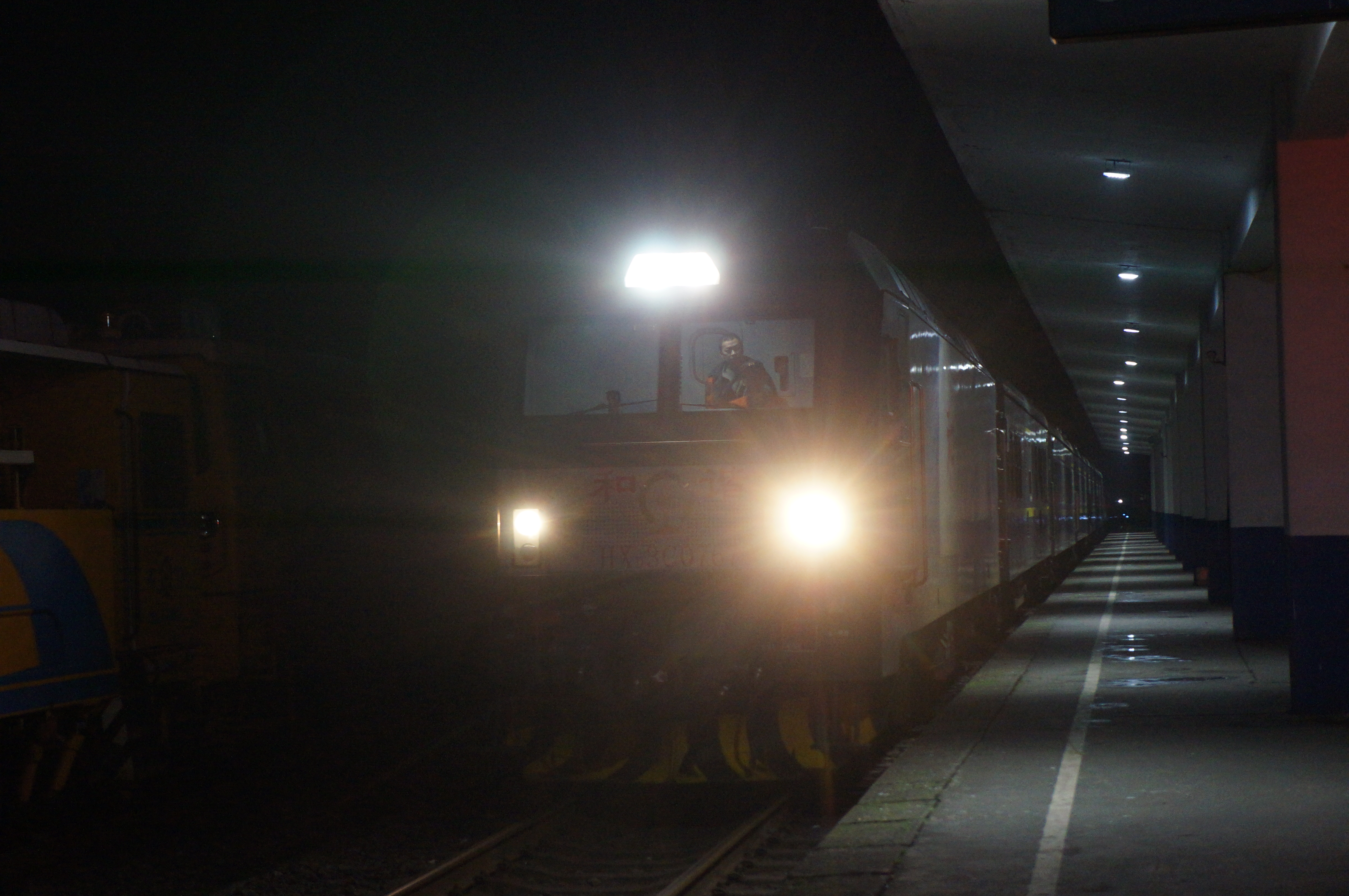 201612 HXD3C-0767 hauls K334 enters into Xiangtang Station